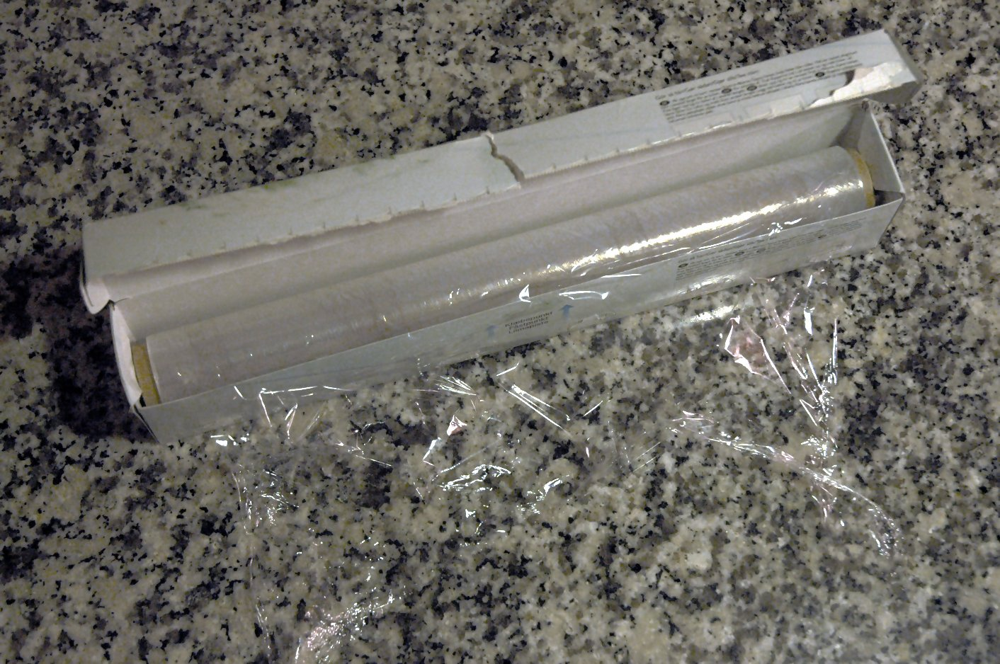 A roll of clingfilm. Photo by Ilmari Karonen.